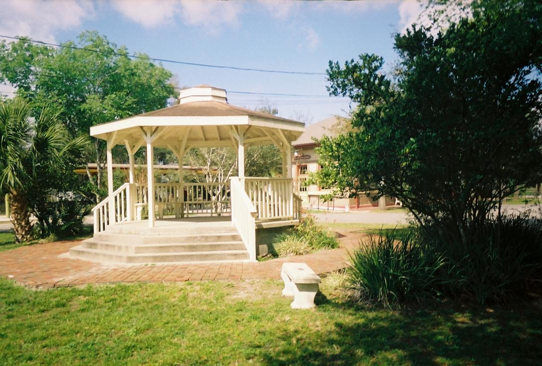 DeLand (Amtrak Station) Gazebo from another angle.